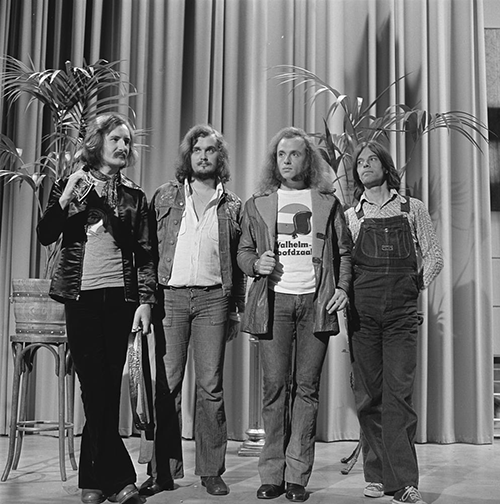 Focus in AVRO's TopPop (Dutch television show) in 1974